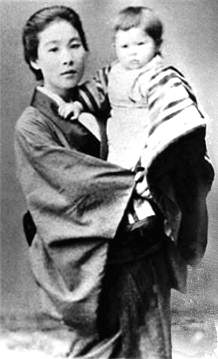 Photo: Taki (with daughter) — girlfriend of Vladimir Mendeleev in Japan